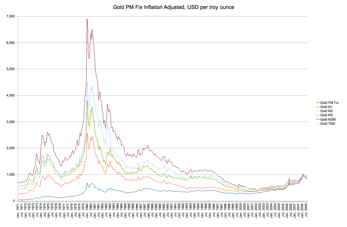 Gold price adjusted by various inflation measures: M1, M2, M3, MZM and TMS